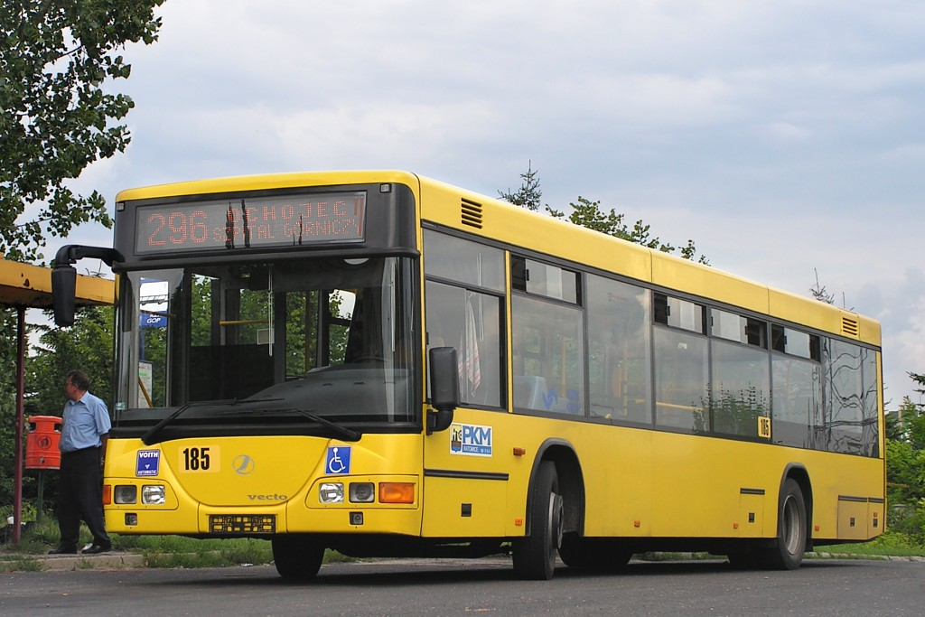 Polish bus Jelcz M125M "Vecto" (#185, reg. SK 88931) from PKM Katowice in Katowice, Poland. Year of production: 2004.